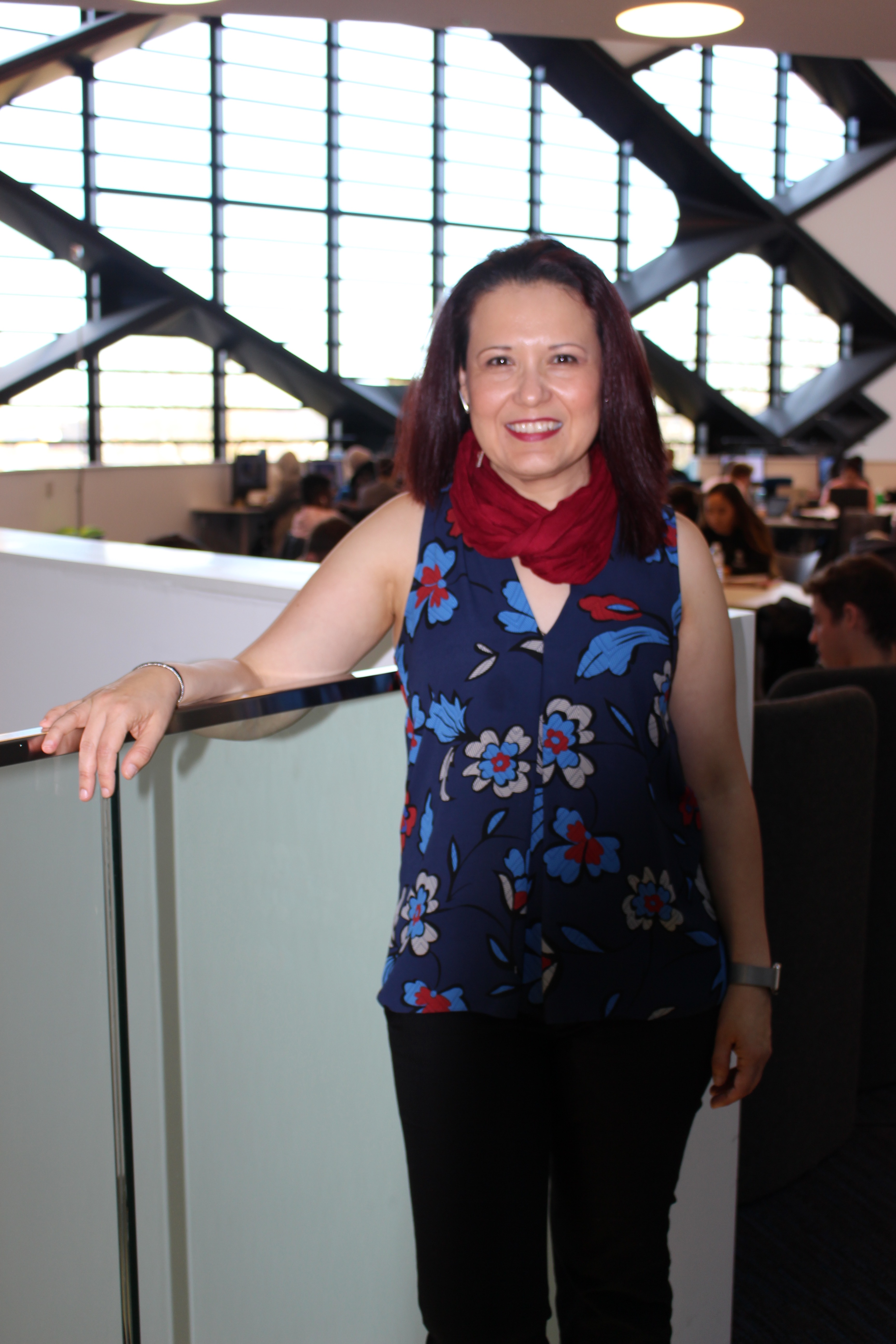 Professor Elena Rodriguez-Falcon at the Diamond Building, The University of Sheffield, 2017